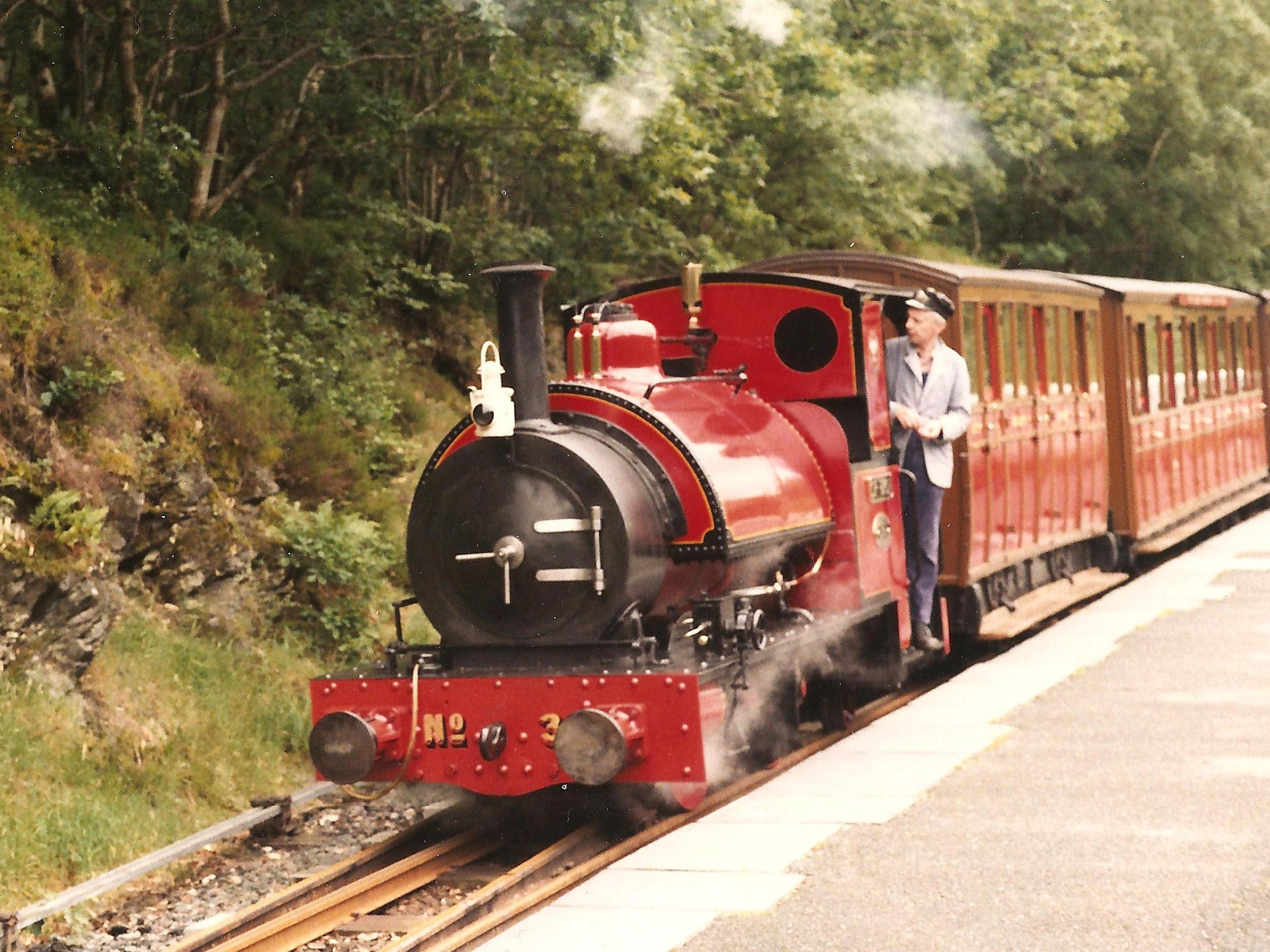 Talyllyn Railway Number 3: Sir Haydn at Abergynolwyn